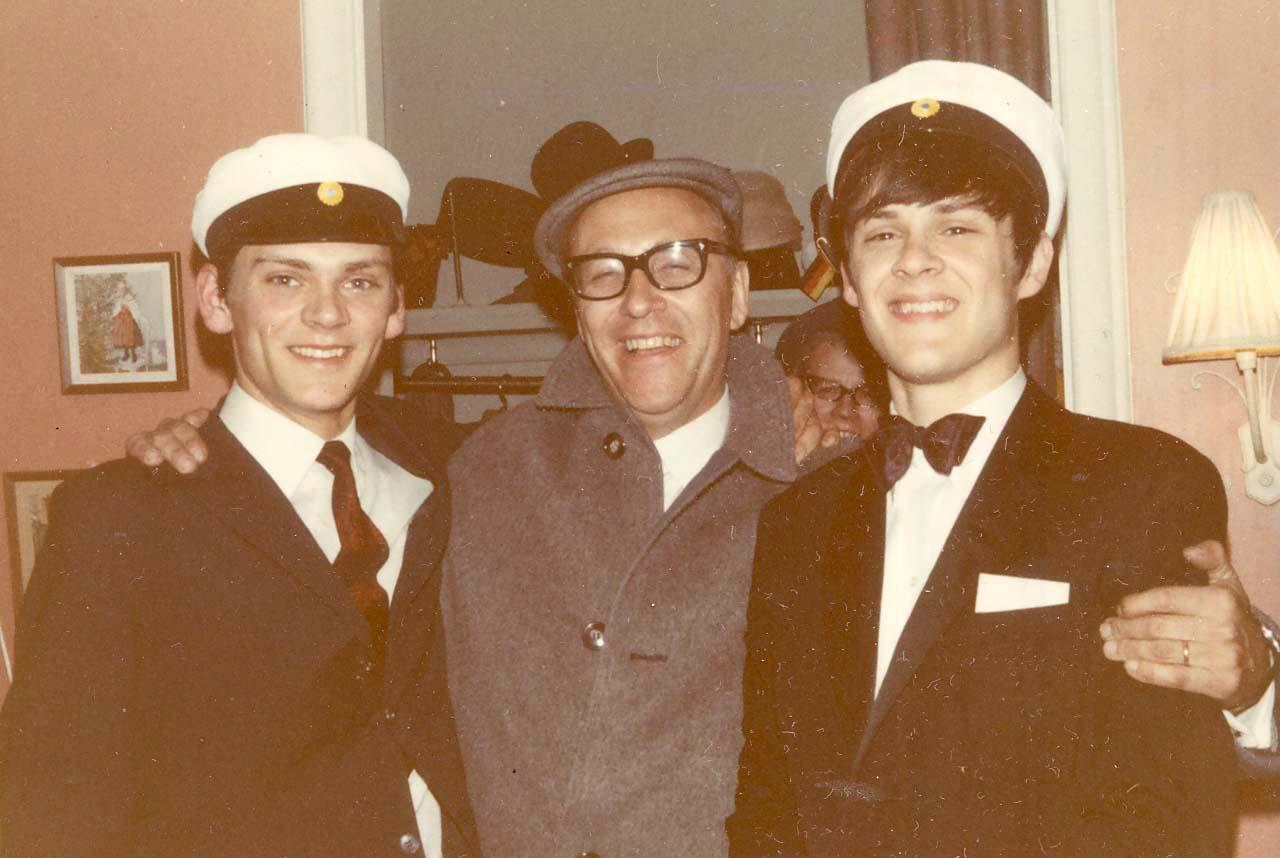 C. J. Stefan Ridderstedt, Lars Ridderstedt & Lars Ridderstedt II on the latter's graduation day, as released by image owner FamSACPlace: Granbacksvägen 5, Danderyd, Sweden